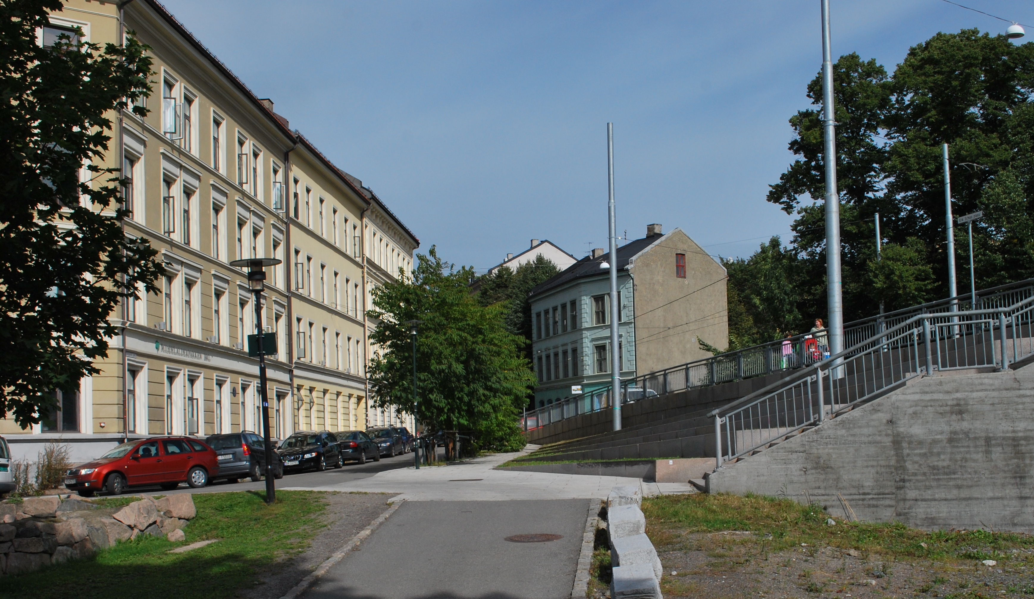 Erik Schias plass (square), Gamlebyen neighbourhood, Oslo.